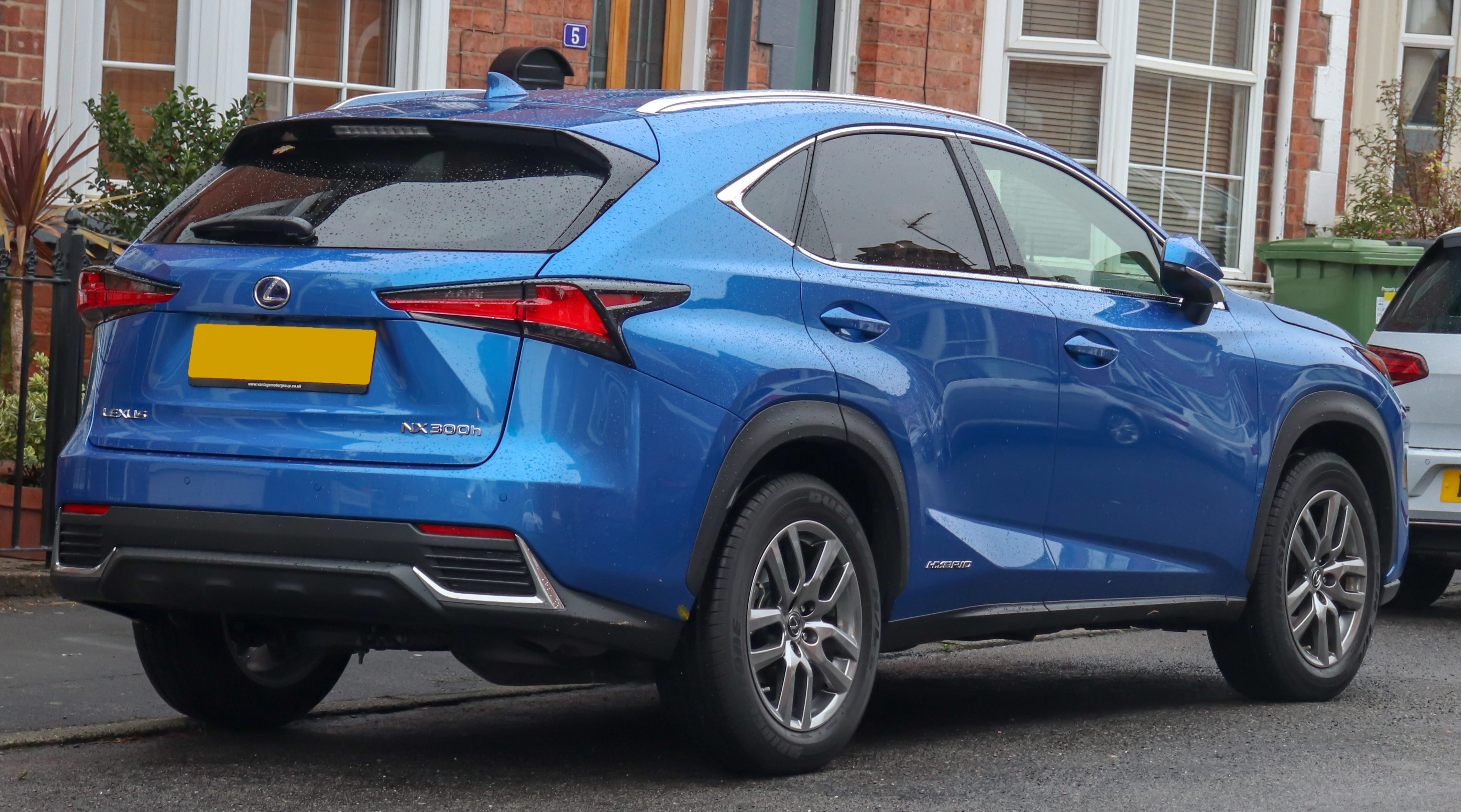 2017 Lexus NX 300h Luxury CVT 2.5 Rear Taken in Warwick